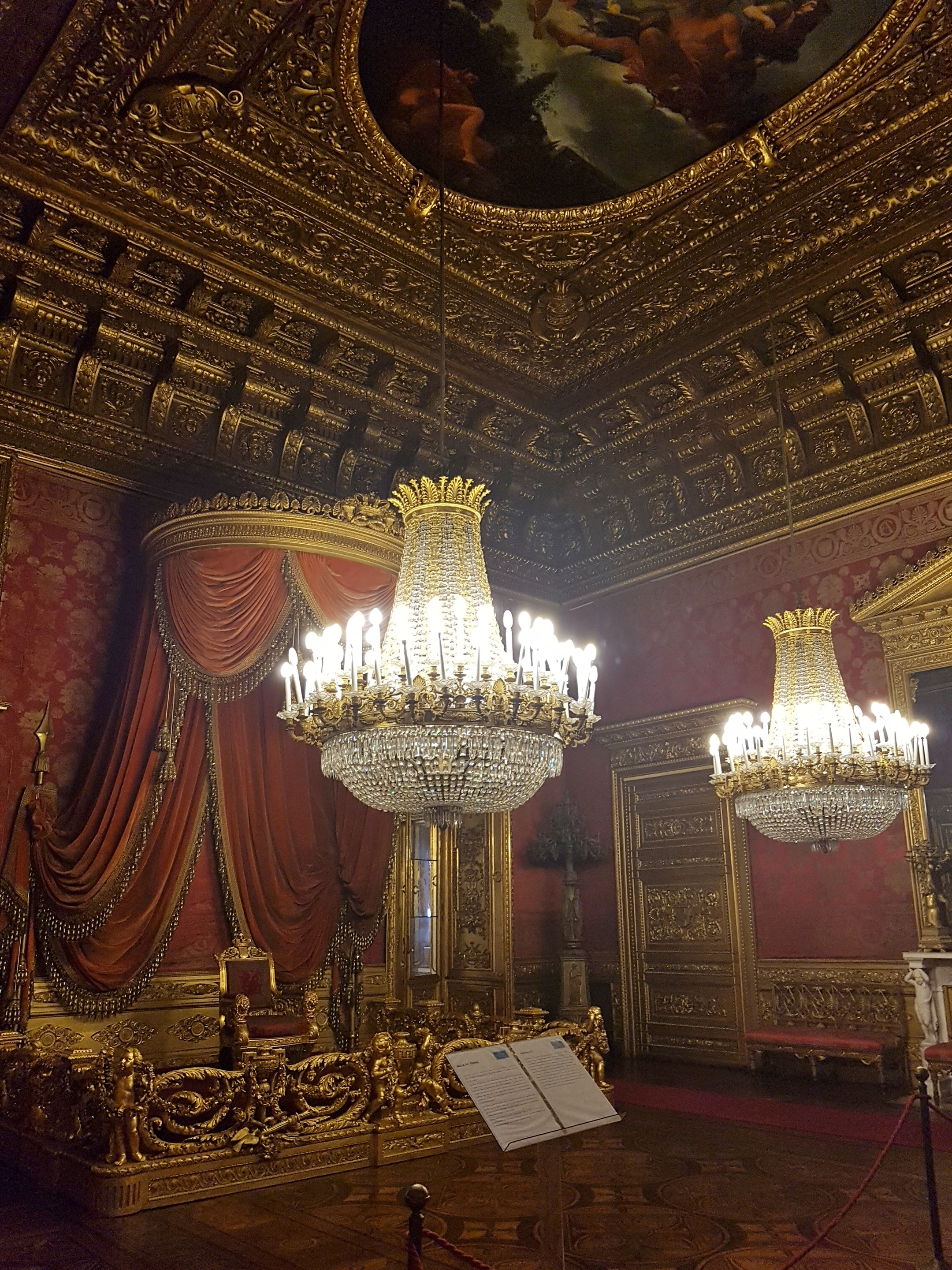 First floor: Throne Hall, Royal Palace of Turin, Northern Italy